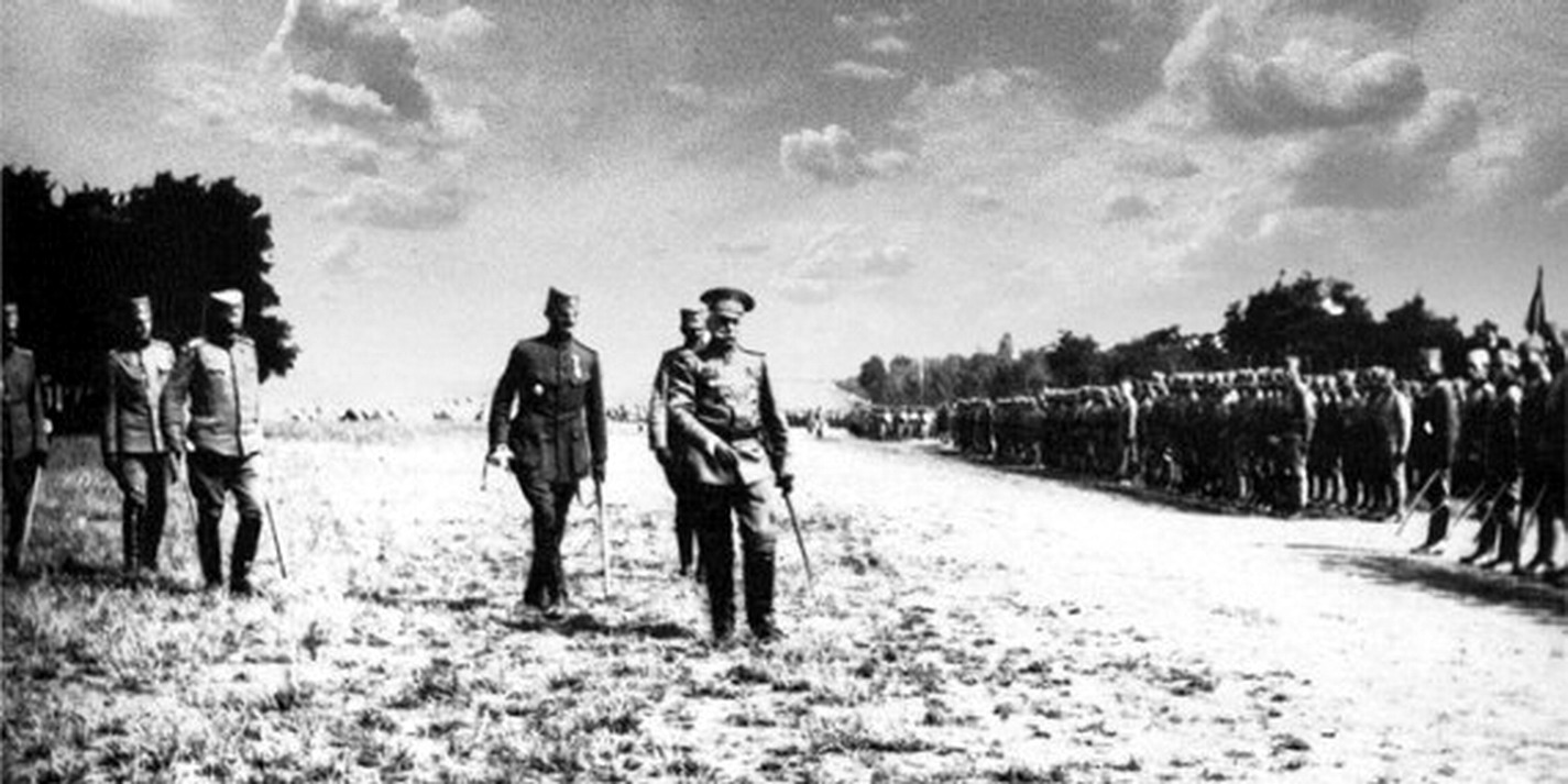 Russian General Brusilov in front of the troops from the 1st Serbian Volunteer Division (Odessa - May 1916)